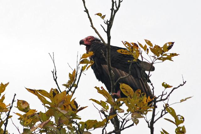 Red-headed-Vulture in Dhikala, Corbett National Park, India